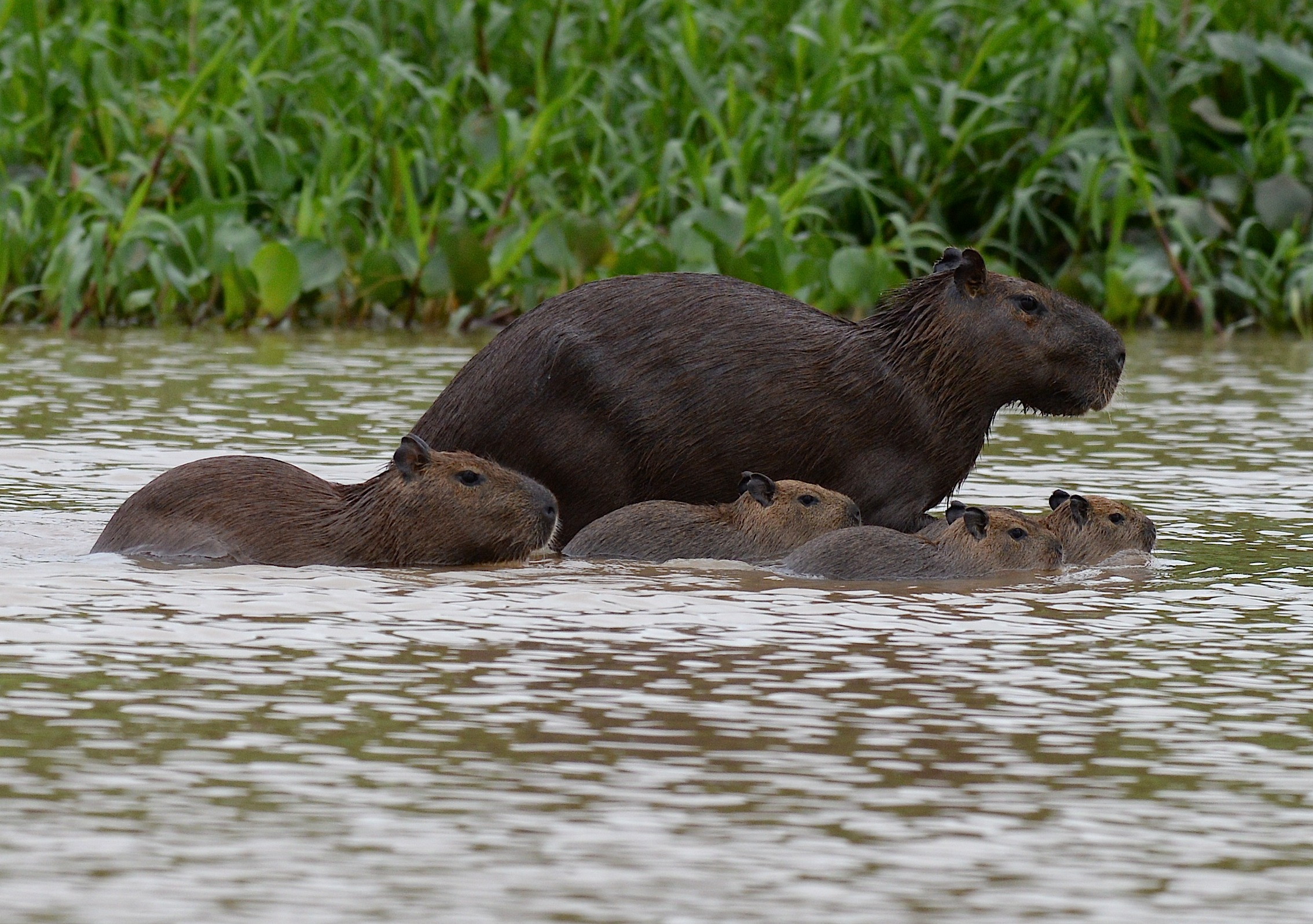 Capybara Pantanal, Brazil